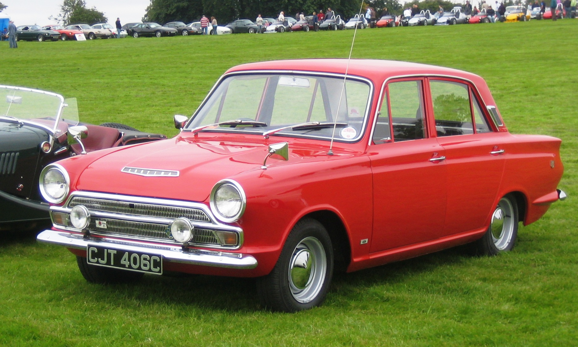 Ford Cortina Mk I (post facelift) 4 door saloon at Knebworth Classic Car Show. The facelift of 1964 involved reworking the front grill which now incorporated the side-lights. (These had previously been separate from the grill, and a different - oval - shape.) The 1964 facelift also involved the addition of airflow ventilation, most obviously evidenced from the outside by the addition of extractor vents on the rear C-pillars.